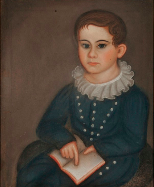 Portrait of George Morillo Bartol (1820-1906) by Mrs. Paine, i.e. "Susanna Paine (ac. Massachusetts, Connecticut, and Rhode Island, 1792-1862)." "Pastel on paper, 25 x 19 3/4 in."